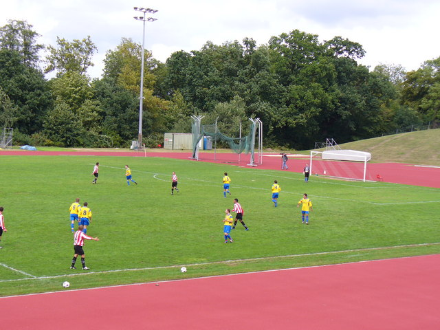 Spectrum Leisure Centre, Guildford Guildford City (stripes) entertain Whitstable Town, the "Oystermen" in the FA Cup Extra-Preliminary Round. Note the running track around the pitch - Spectrum doubles as an athletics arena. A local businessman hopes to develop the ground into a football stadium seating some 7-8,000 spectators.